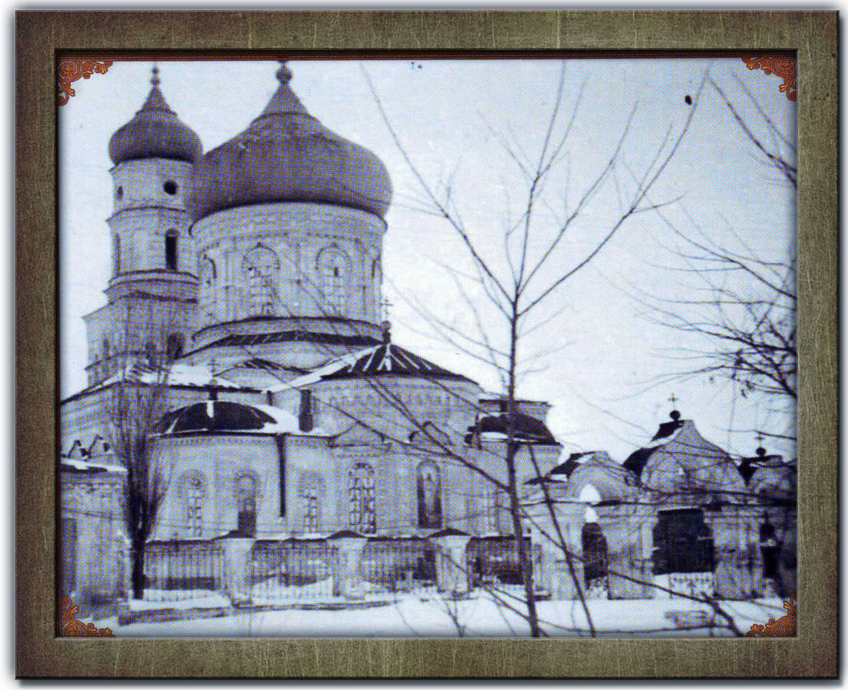 Spaso-Nerukotvorniy temple